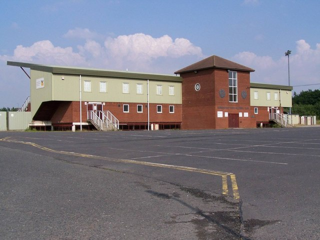 Hednesford Town Football Club. known as 'The Pitmen'